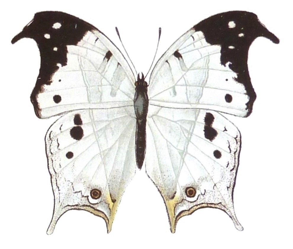 SeitzFaunaAfricana Protogoniomorpha anacardii ssp. duprei (Vinson, 1863)